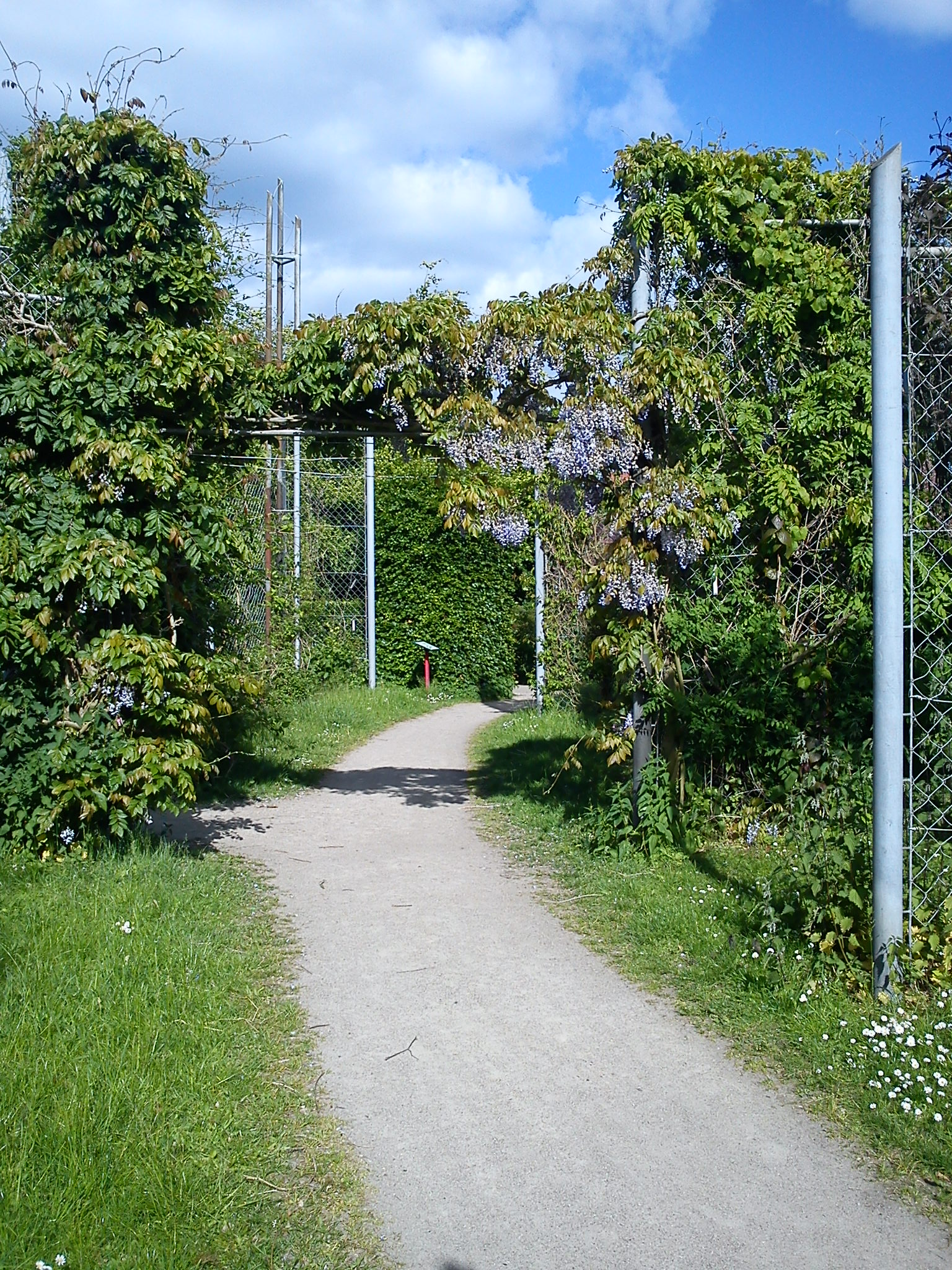 Aarhus Botanical Gardens